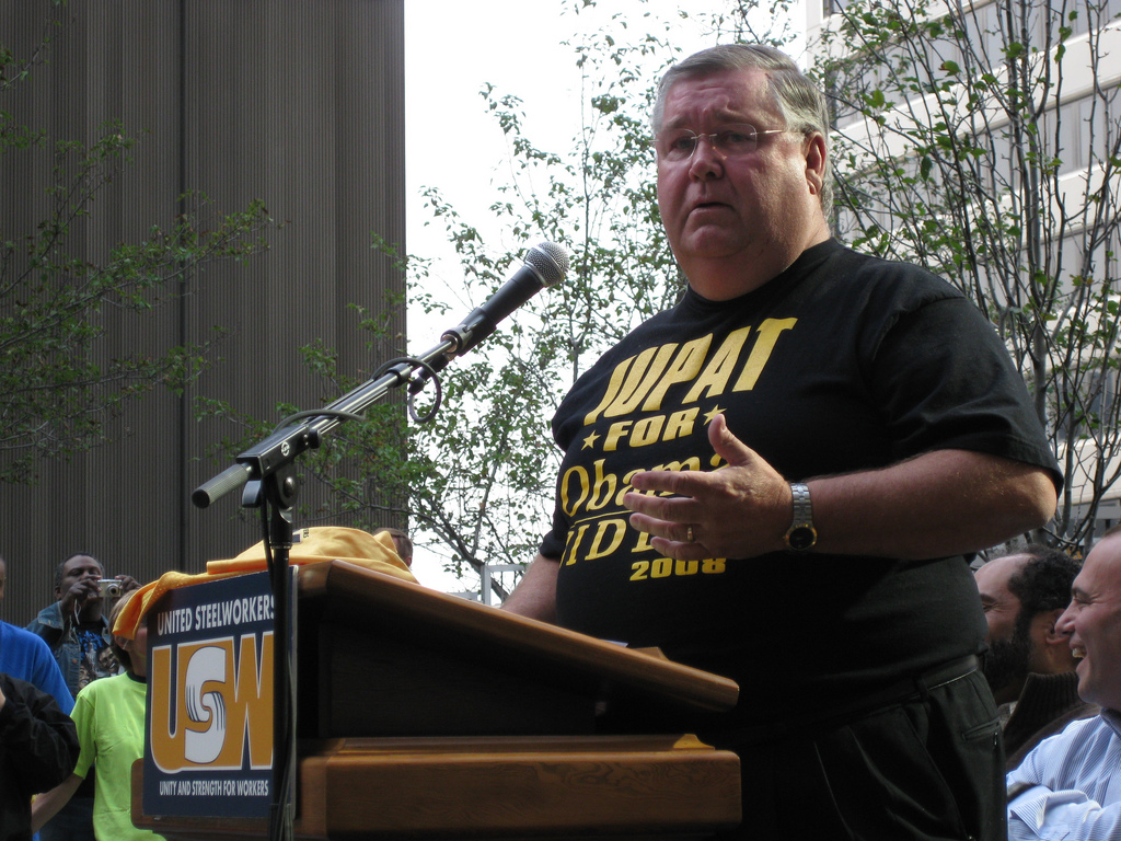 James Williams (labor leader) at a rally in Pittsburgh.